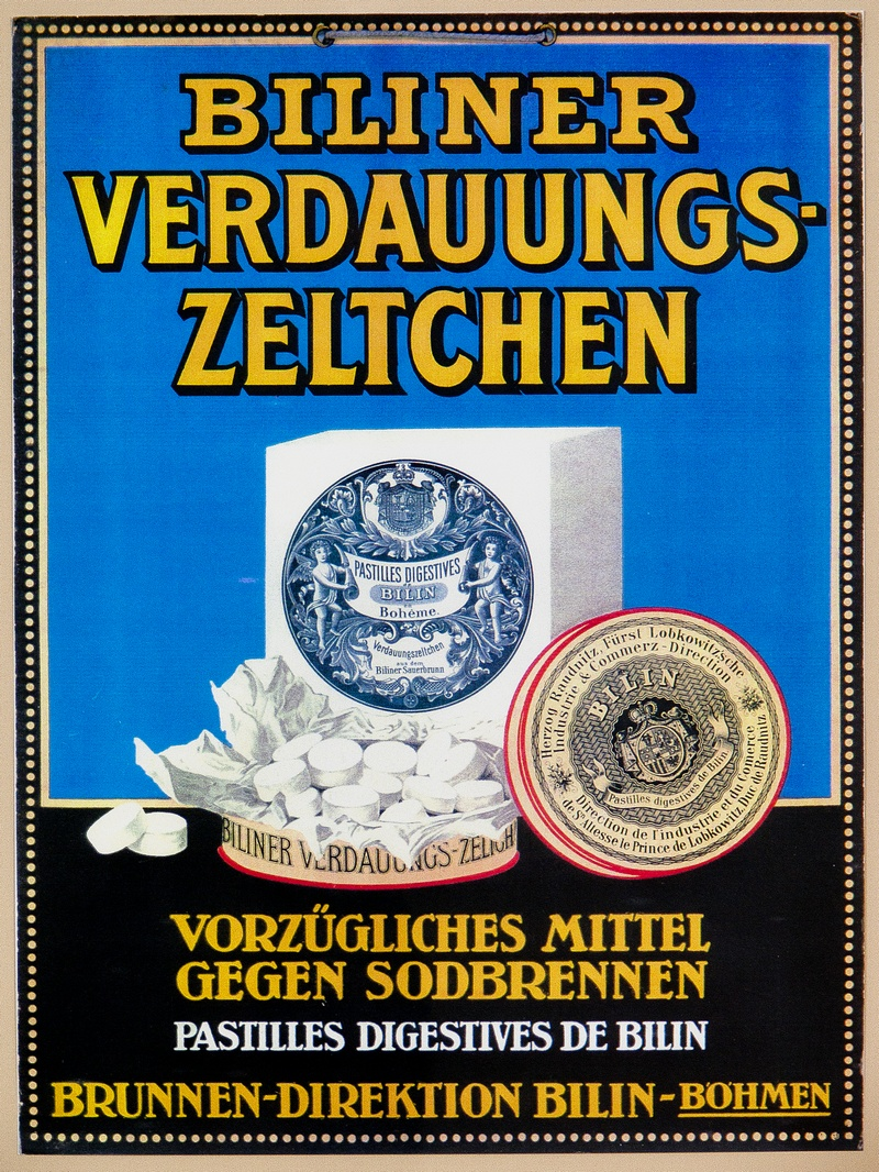 BILINSKA KYSELKA digestive pastilles historical poster